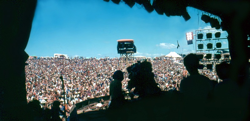 Nambassa 1979 Main Stage,.jpg - Image (photograph) taken by Official Nambassa Photographer and uploaded by User:(Mombas 08:50, 12 July 2006 (UTC)). Nambassa dot com Terms of Use: 1/ All users of this image are required to attribute this work to "Nambassa Trust and Peter Terry" and the URL: " " is to accompany all use. 2/ Attribution. You must attribute the work in the manner specified by the author or licensor. 3/ For any reuse or distribution, you must make clear to others the license terms of this work. Statement by Nambassa Trust and Peter Terry